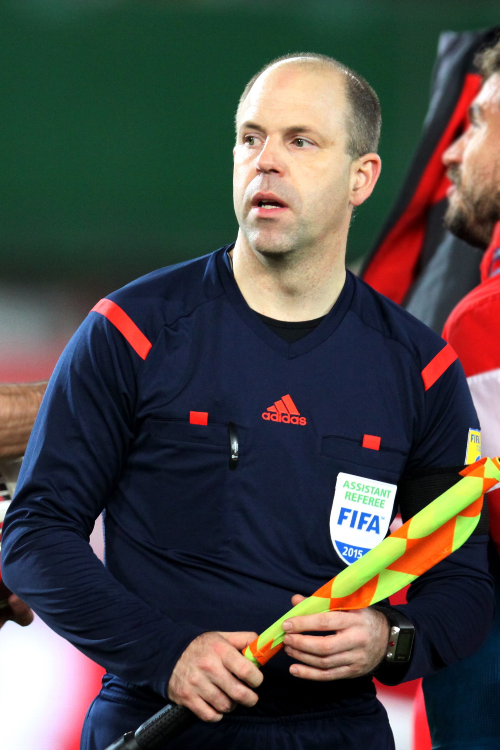 Friendly match – Austria (red shirts) vs. Switzerland (white shirts) 1-2 (1-2) – 2015-11-17 in Vienna, Ernst-Happel-Stadion – The photo shows assistent referee Mike Pickel (Germany).